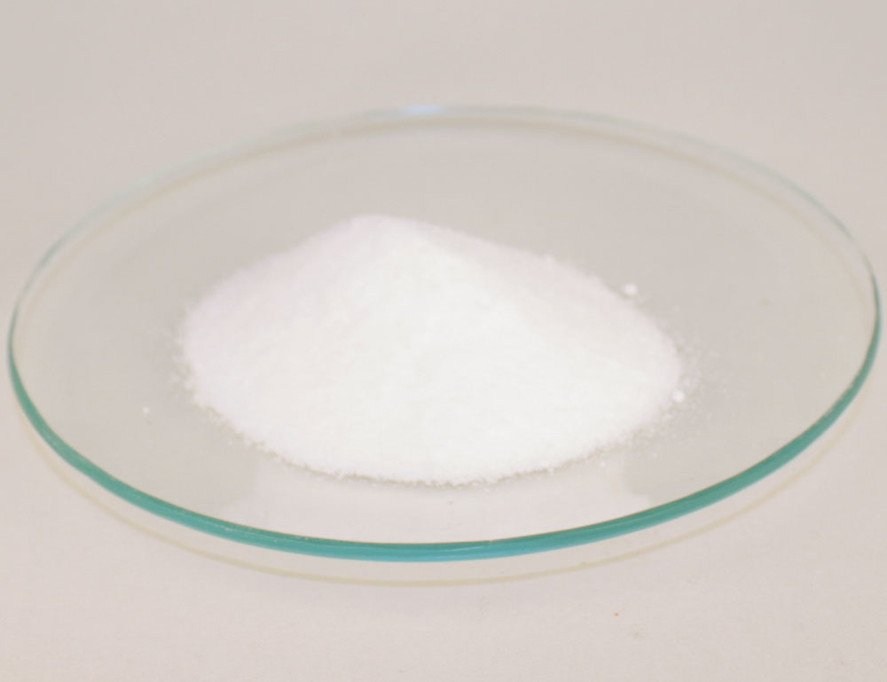 took this picture in lab